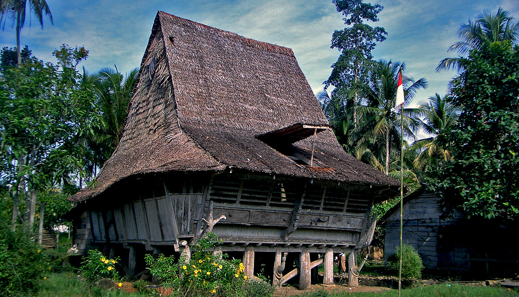 Traditional house we found at our trip to Gomo, Nias, Indonesia.